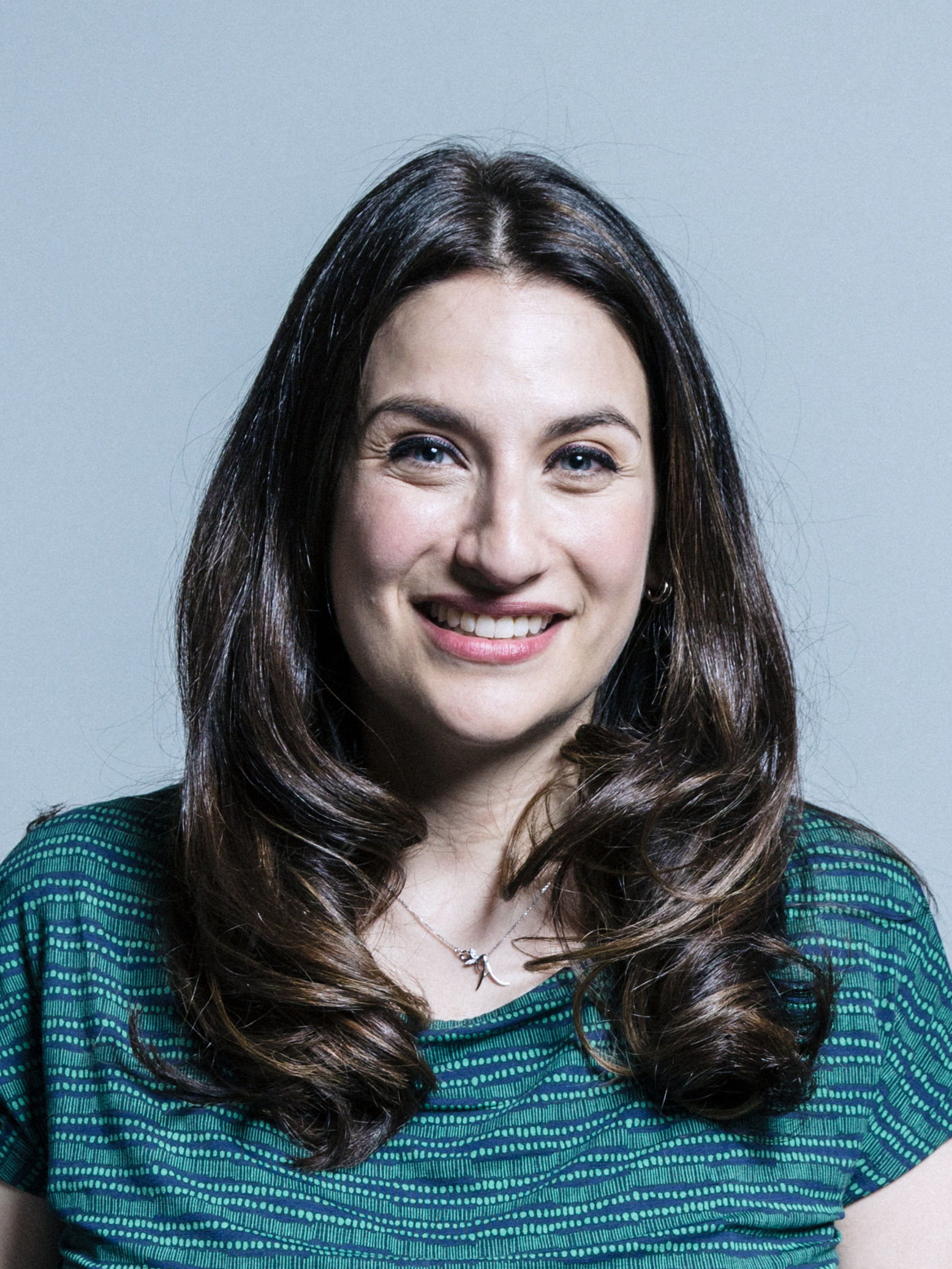 Official portrait of Luciana Berger